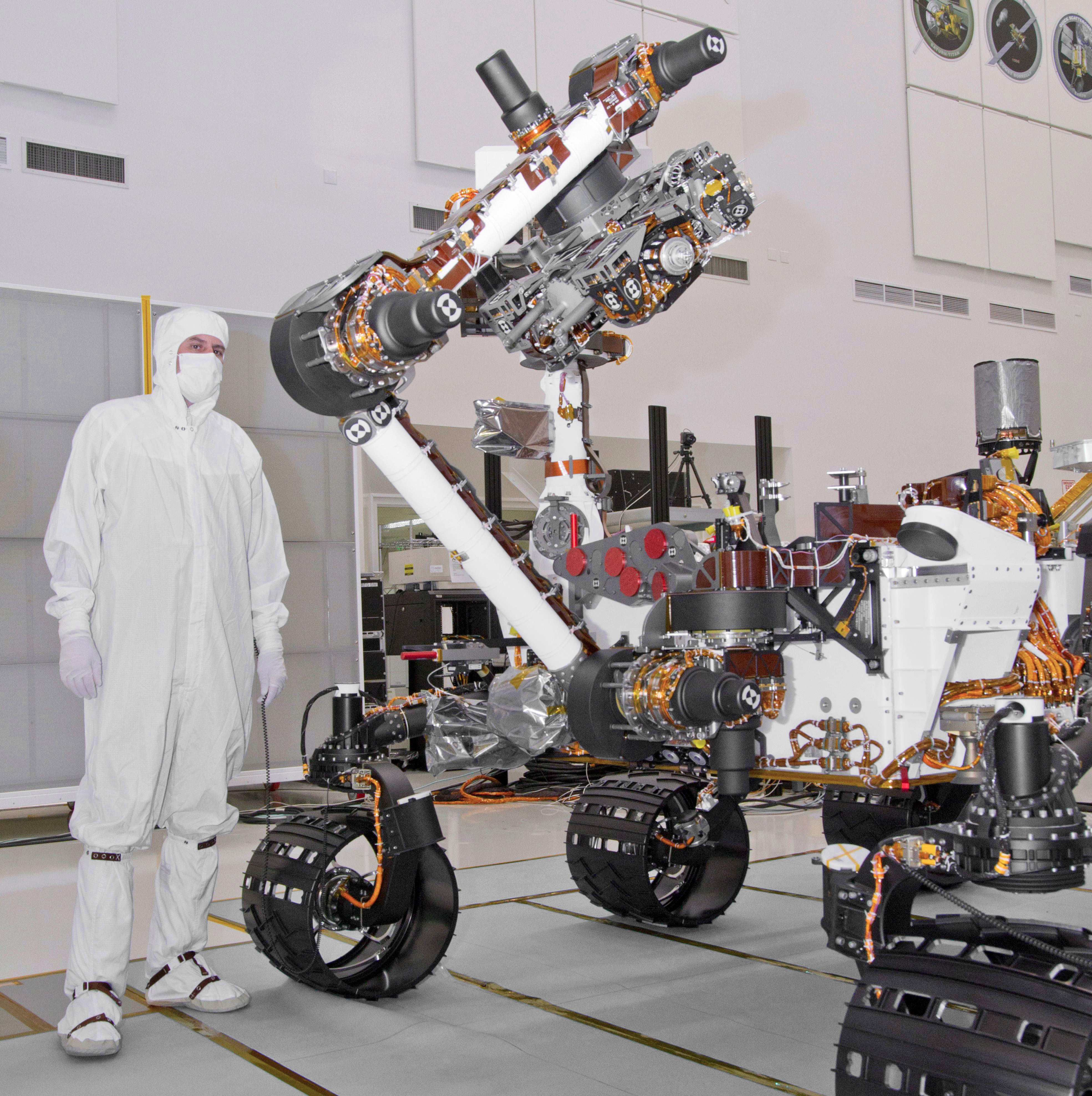 This photograph of the NASA Mars Science Laboratory rover, Curiosity, was taken during testing on June 3, 2011. The location is inside the Spacecraft Assembly Facility at NASA's Jet Propulsion Laboratory, Pasadena, Calif. The turret at the end of Curiosity's robotic arm holds five devices. On the left (downhill) edge of the turret in this view is the percussive drill for collecting powdered samples from rock interiors. On the edge toward the camera is a brush device named Dust Removal Tool. Not visible in this view are the Alpha Particle X-ray Spectrometer and a multi-purpose device named Collection and Handling for In-situ Martian Rock Analysis (CHIMRA), which includes a soil scoop and a set of chambers and labyrinths for sieving, sorting and portioning samples of rock powder or soil for delivery to analytical instruments.